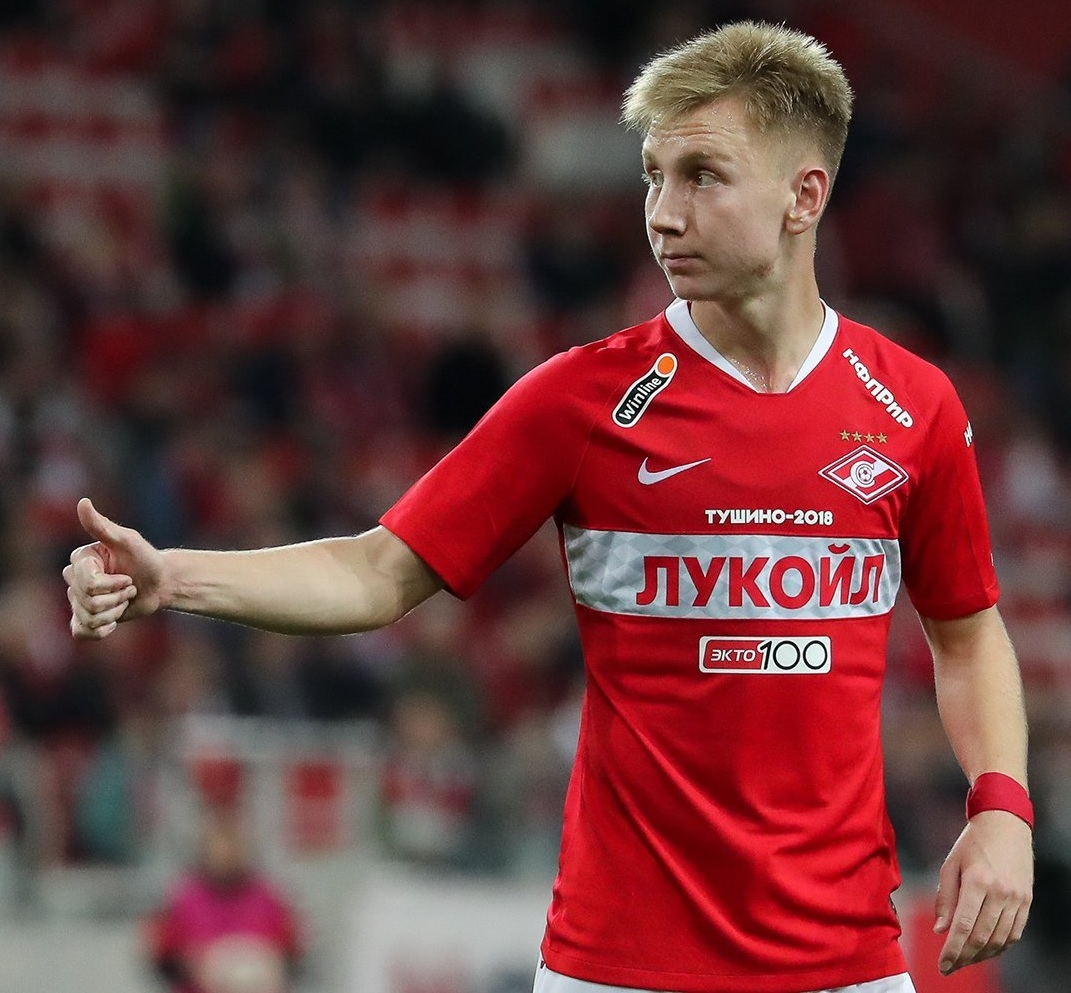 Nail Umyarov with FC Spartak Moscow in a game against FC Rubin Kazan.